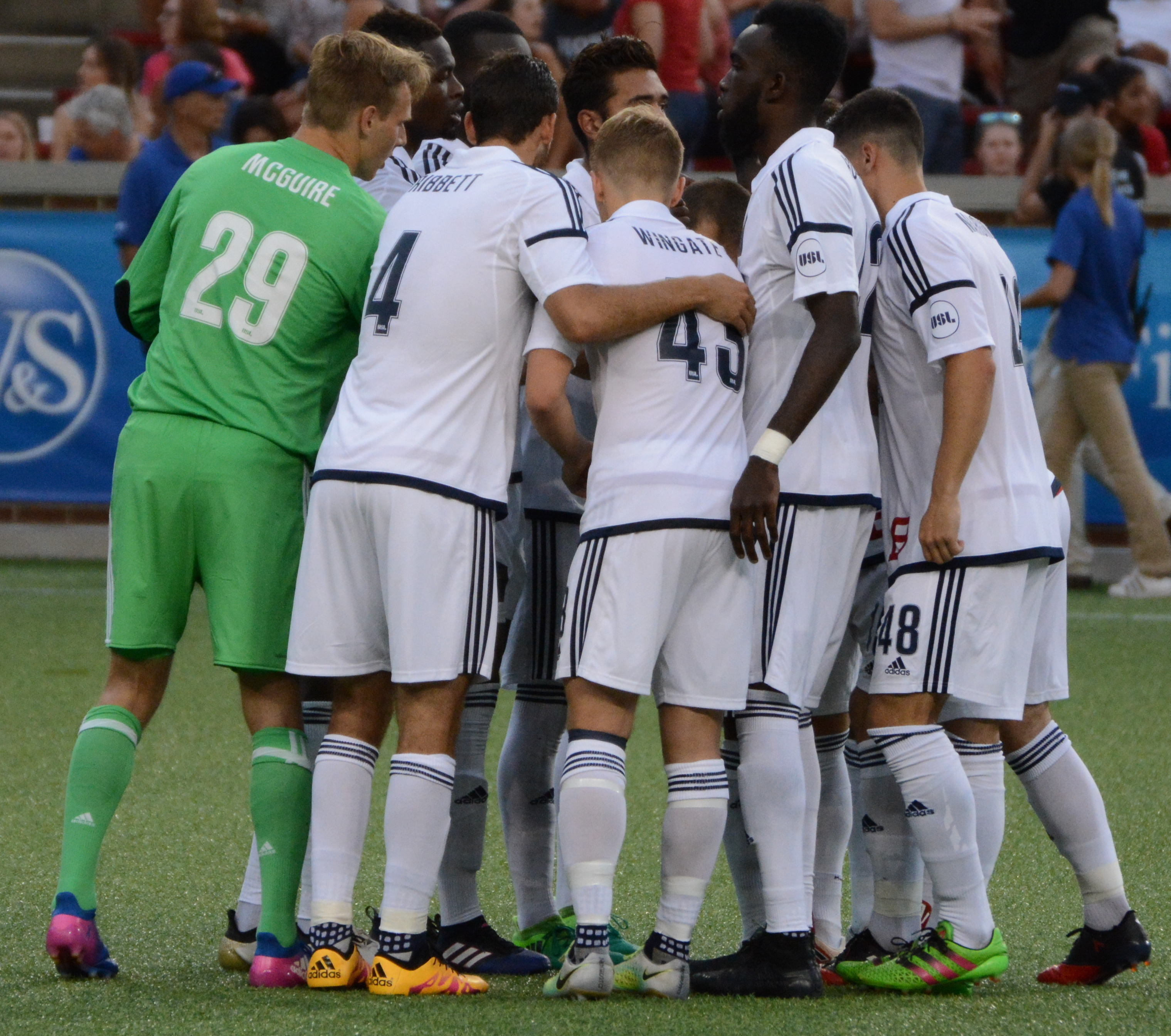 BST huddle Taken during a match between FC Cincinnati and Bethlehem Steel FC at Nippert Stadium in Cincinnati, USA on May 20, 2017.